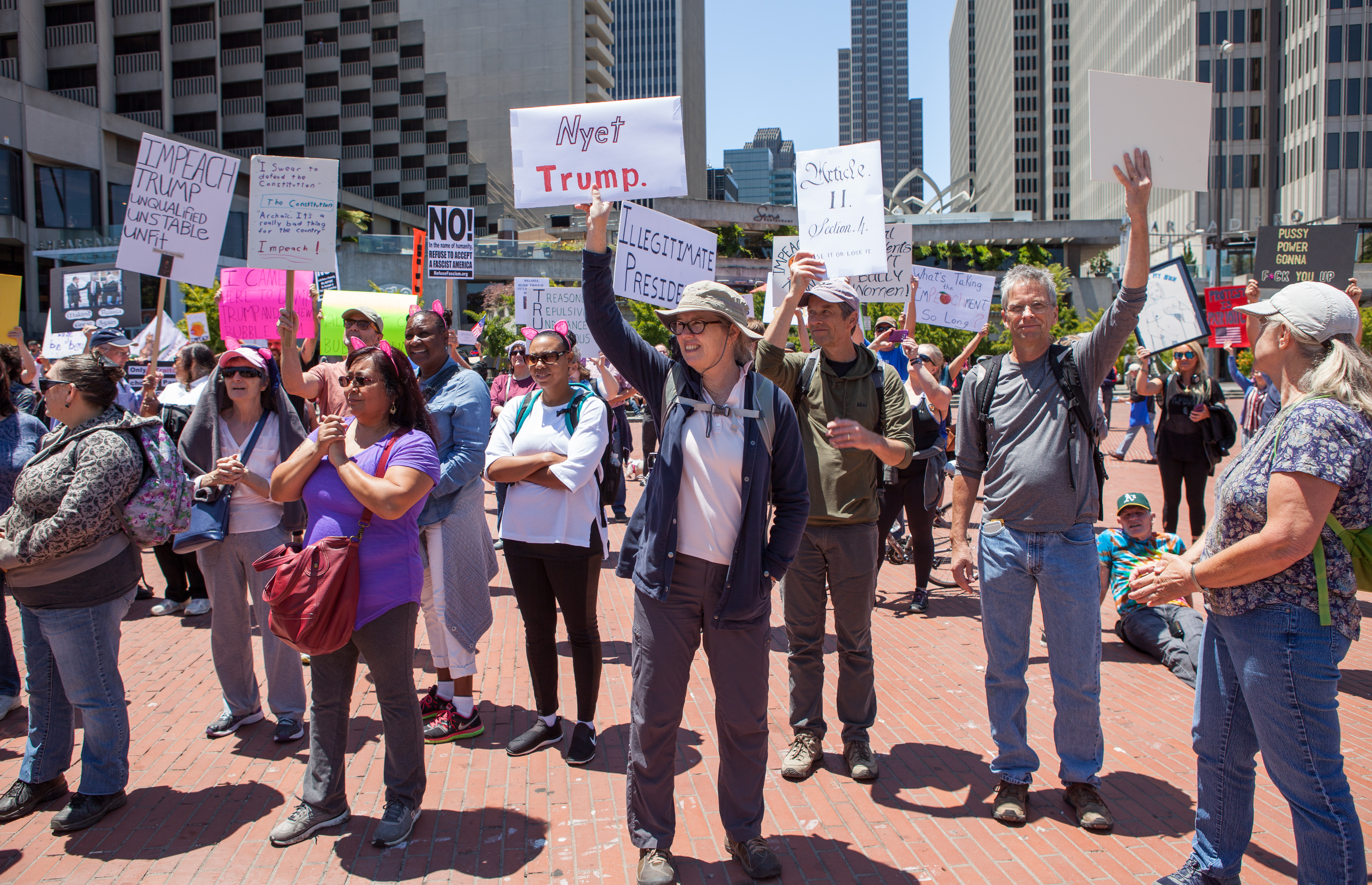 Protesters stand in Justin Herman Plaza, holding signs at the Impeachment March in San Francisco.